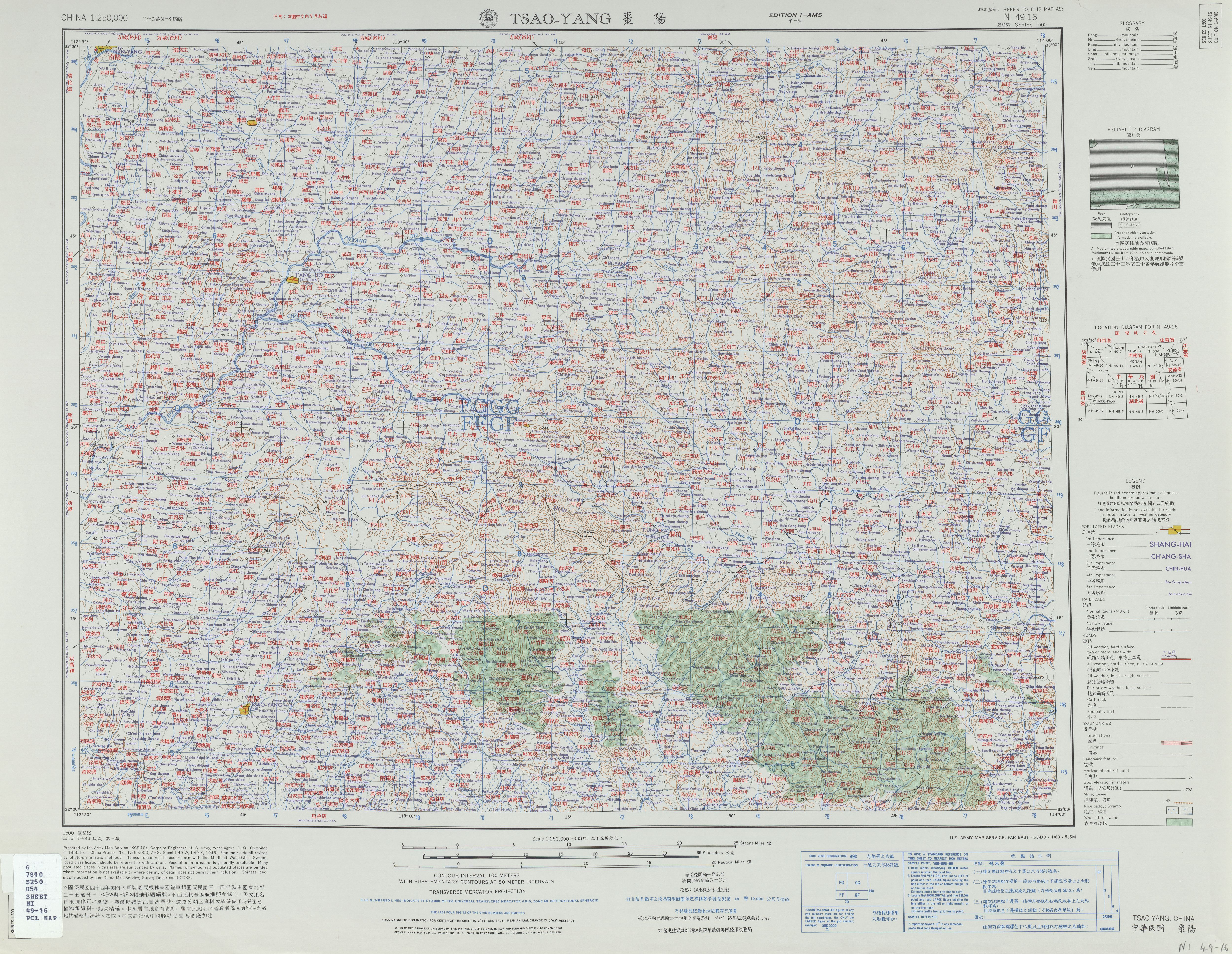 China AMS Topographic Maps